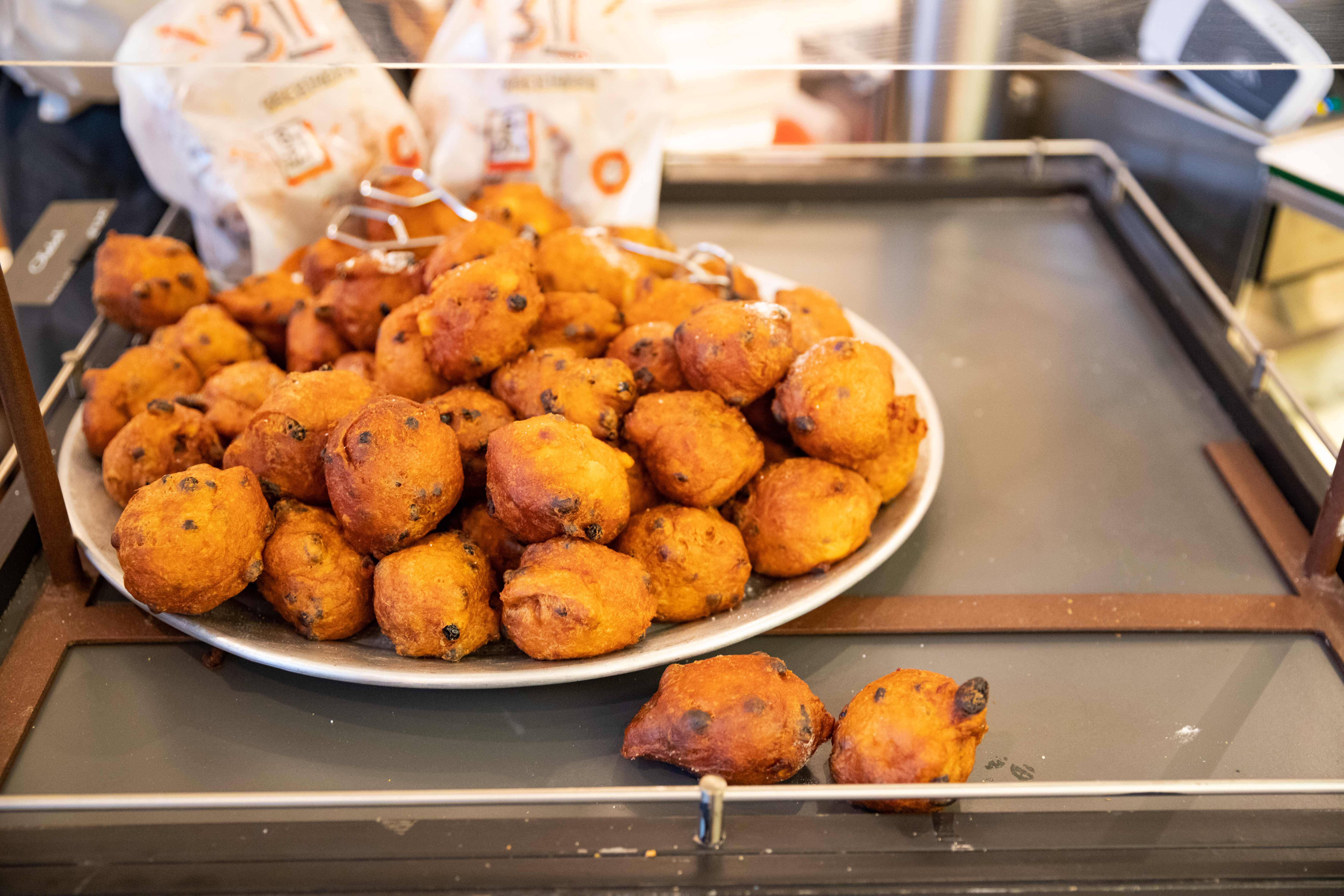 Traditional Dutch oliebols (oliebollen)